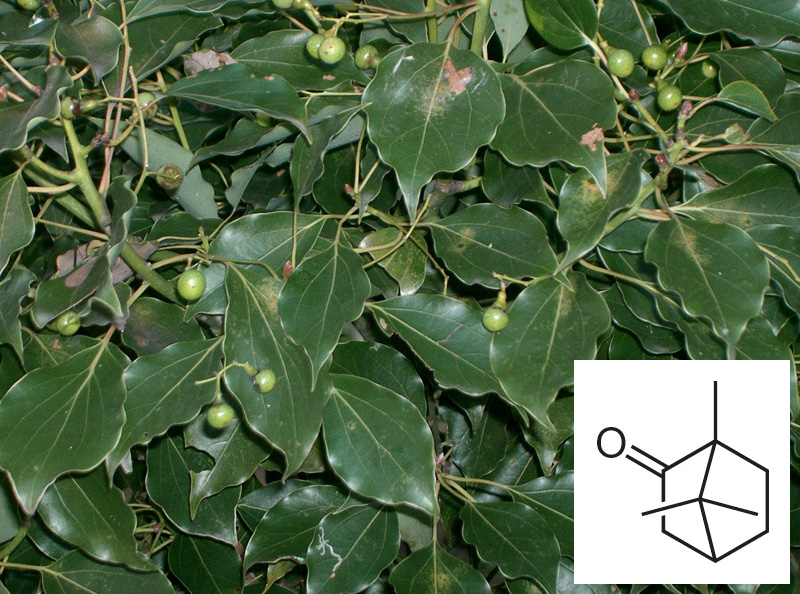 Chemical structure of camphor on leaves of camphor laurel (Cinnamomum camphora), which contain champhor.